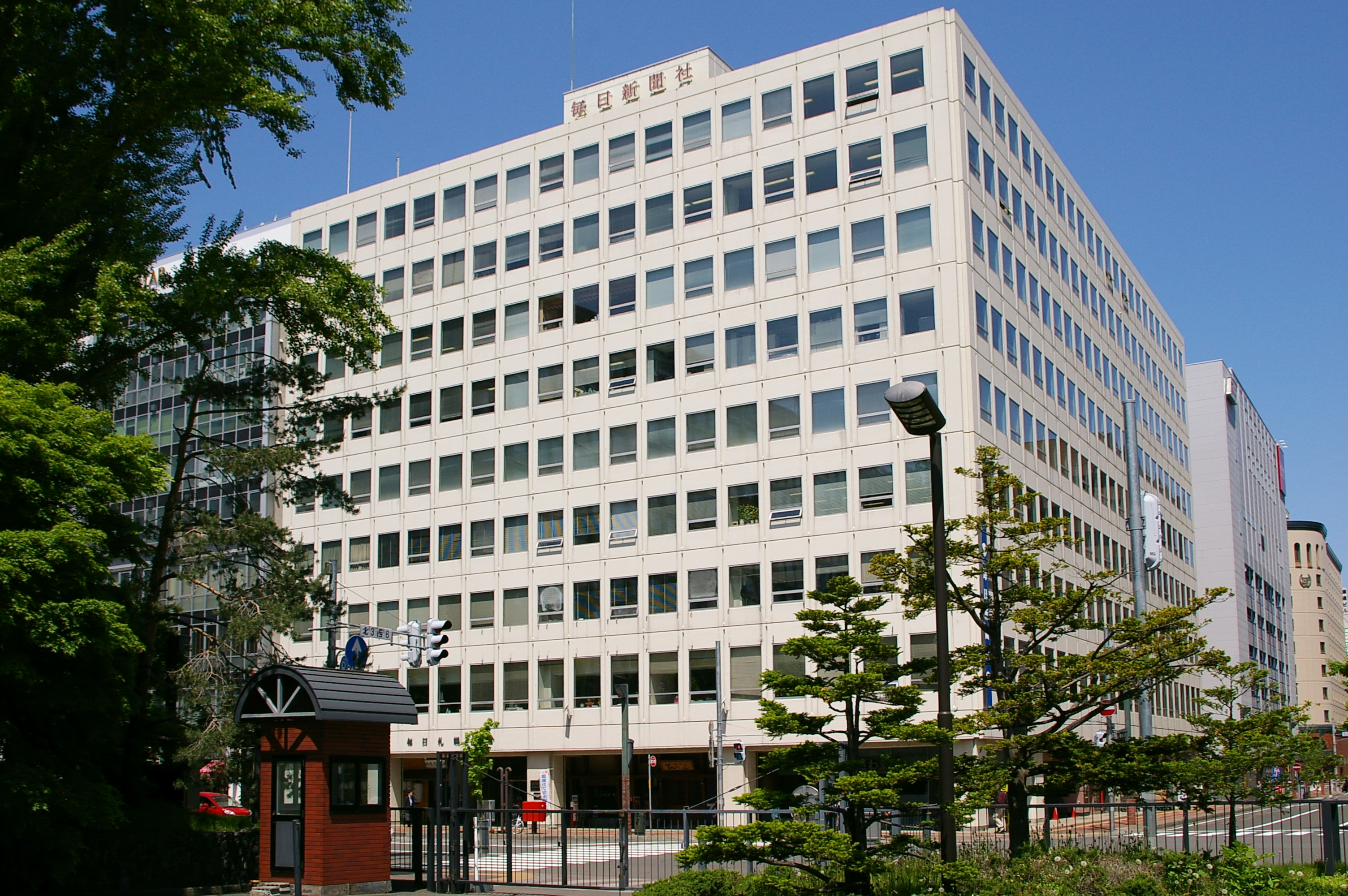 Photograph of Mainichi Sapporo Building, Hokkaido Branch Office of Mainichi Newspapers, in Chuo-ku, Sapporo, Hokkaido, Japan.